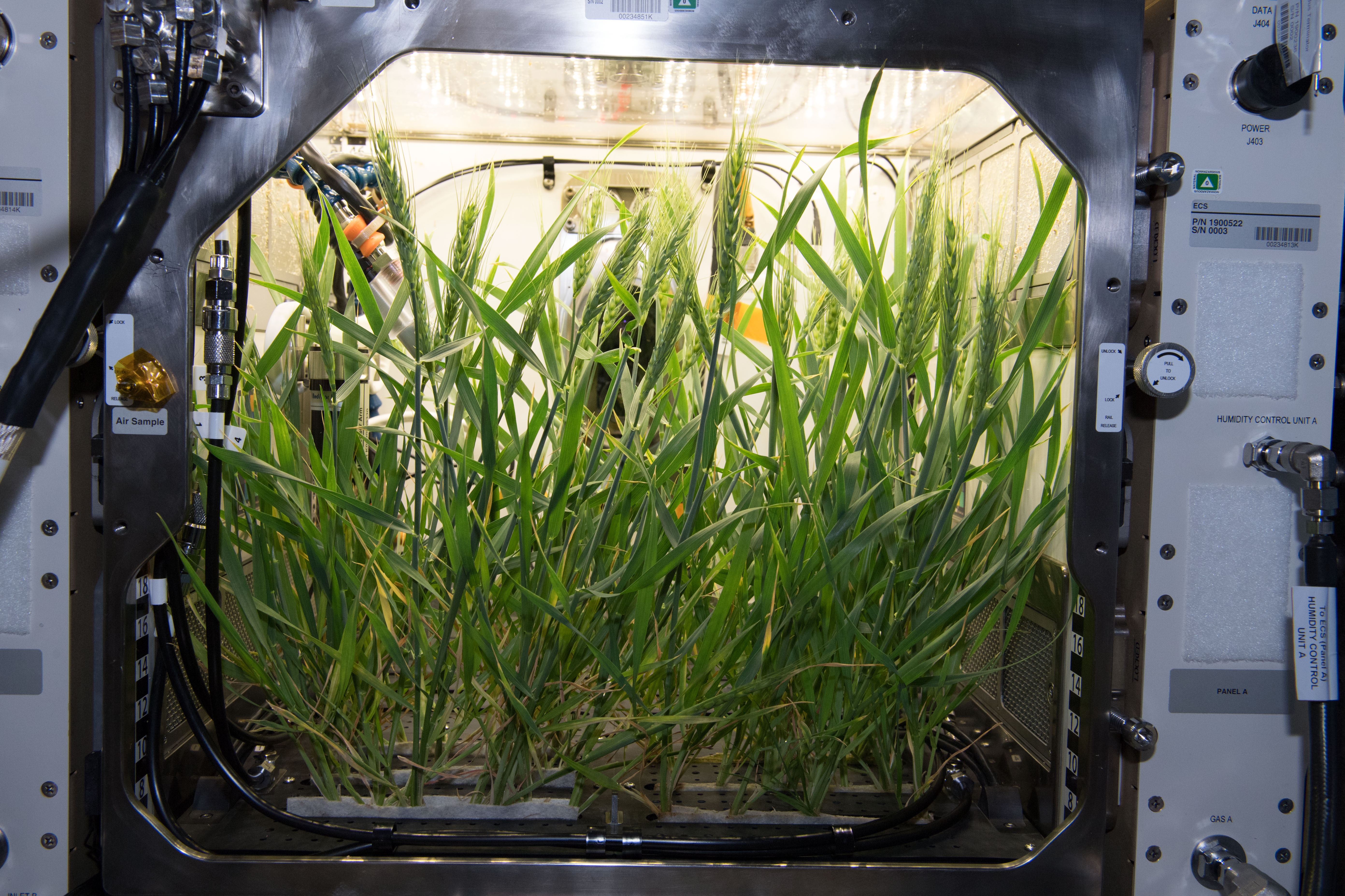 Dwarf wheat stalks grow in the Advanced Plant Habitat, a fully automated facility that is being used to support plant bioscience research on the space station in a large, enclosed, environmentally controlled chamber.